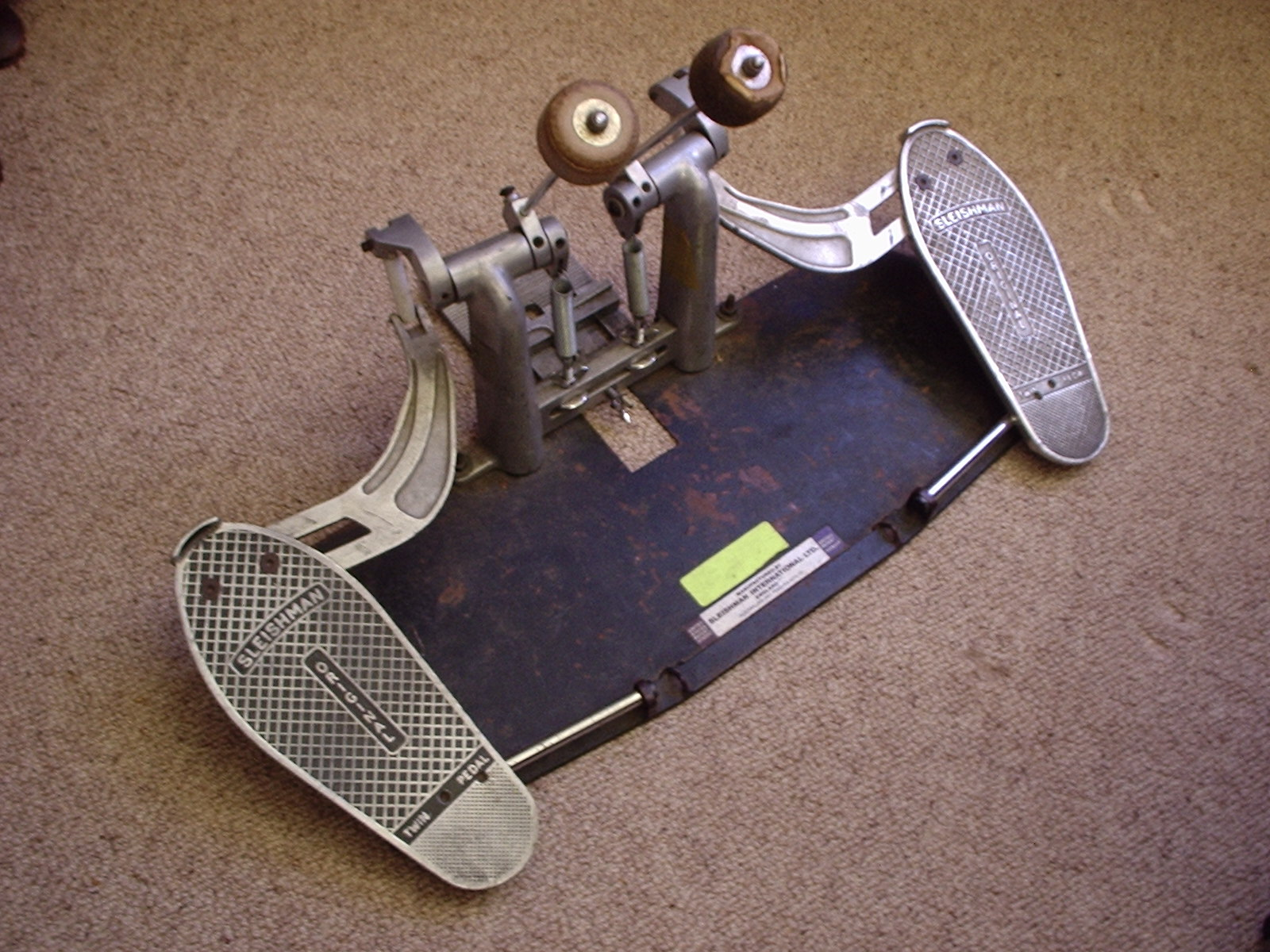 Original Sleishman twin bass drum pedal